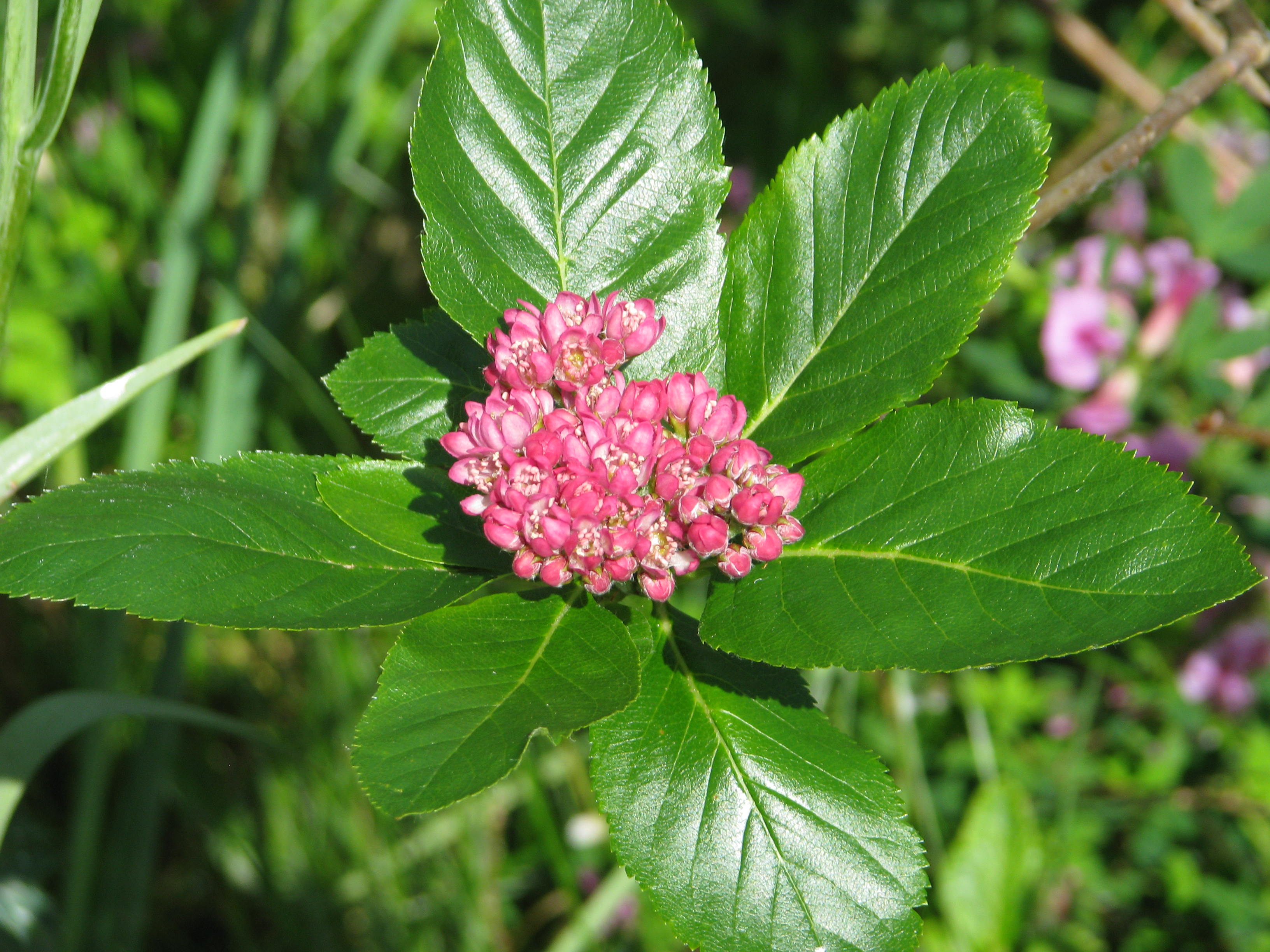 One I'll be taking with me when I go. I got lots of nice fat seeds from it last autumn but they haven't come up. Not sure why.